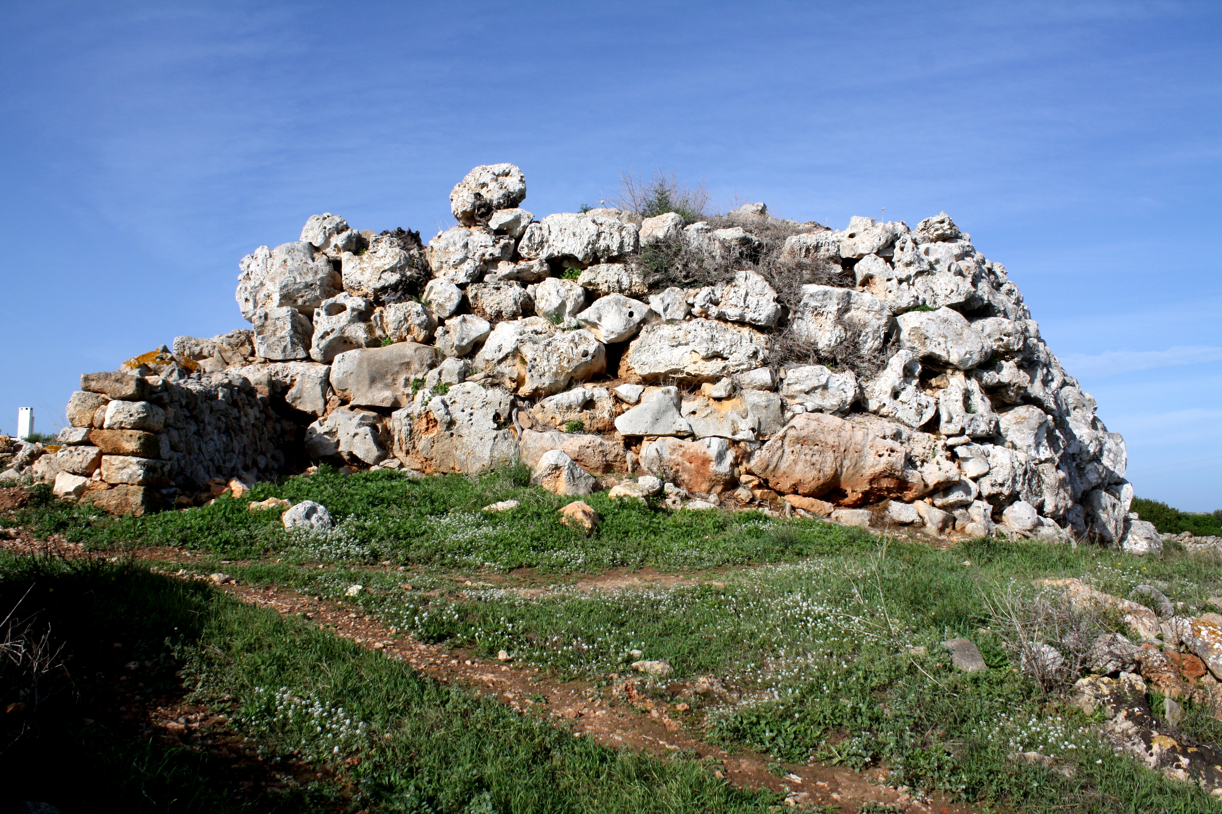 South-western talayot of Montefí talayotic settlement, Ciutadella, Minorca.